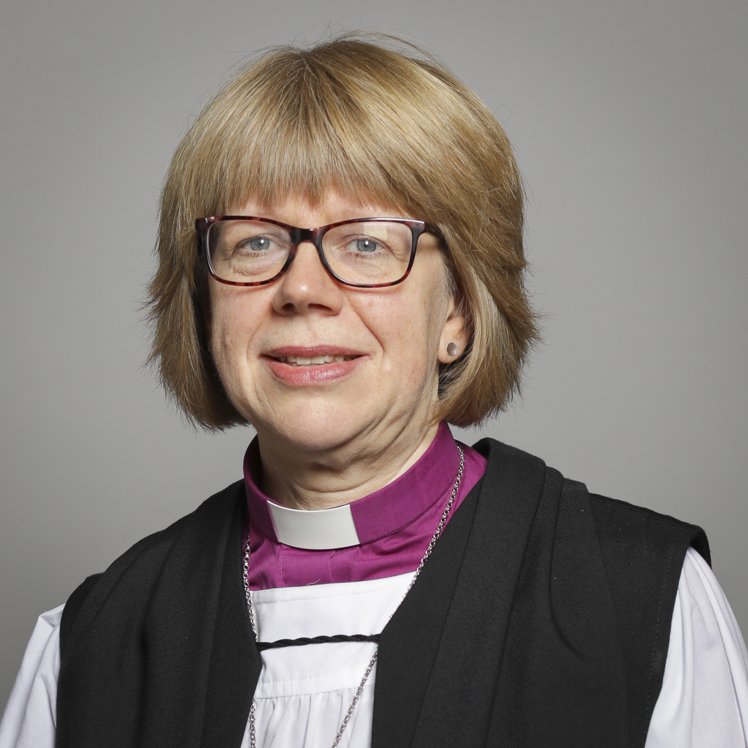 Official portrait of The Lord Bishop of London 1×1 portrait of The Lord Bishop of London